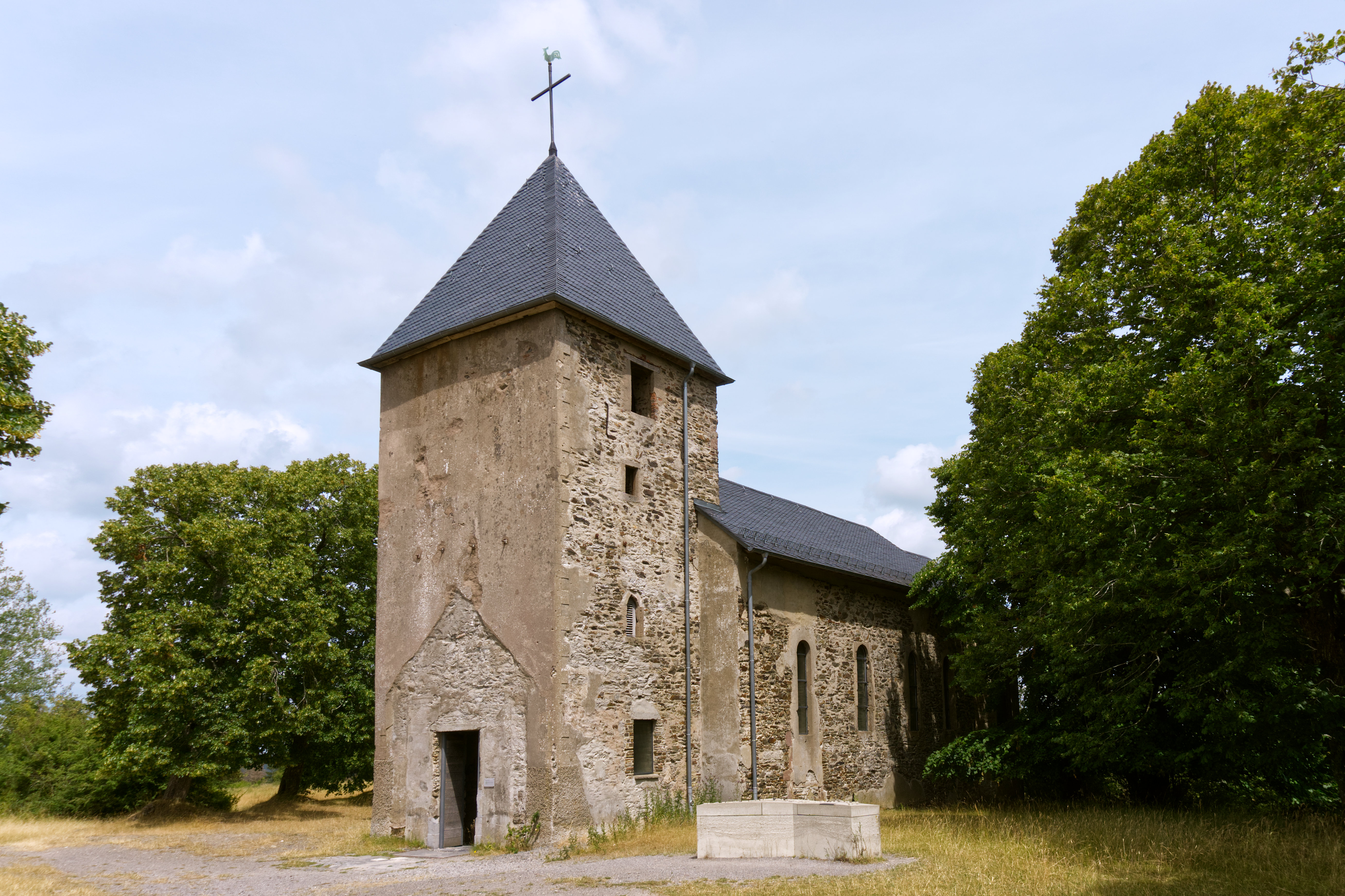 Former church St. Rochus in the abandoned village of Wollseifen, Schleiden, Germany This is a photograph of an architectural monument.